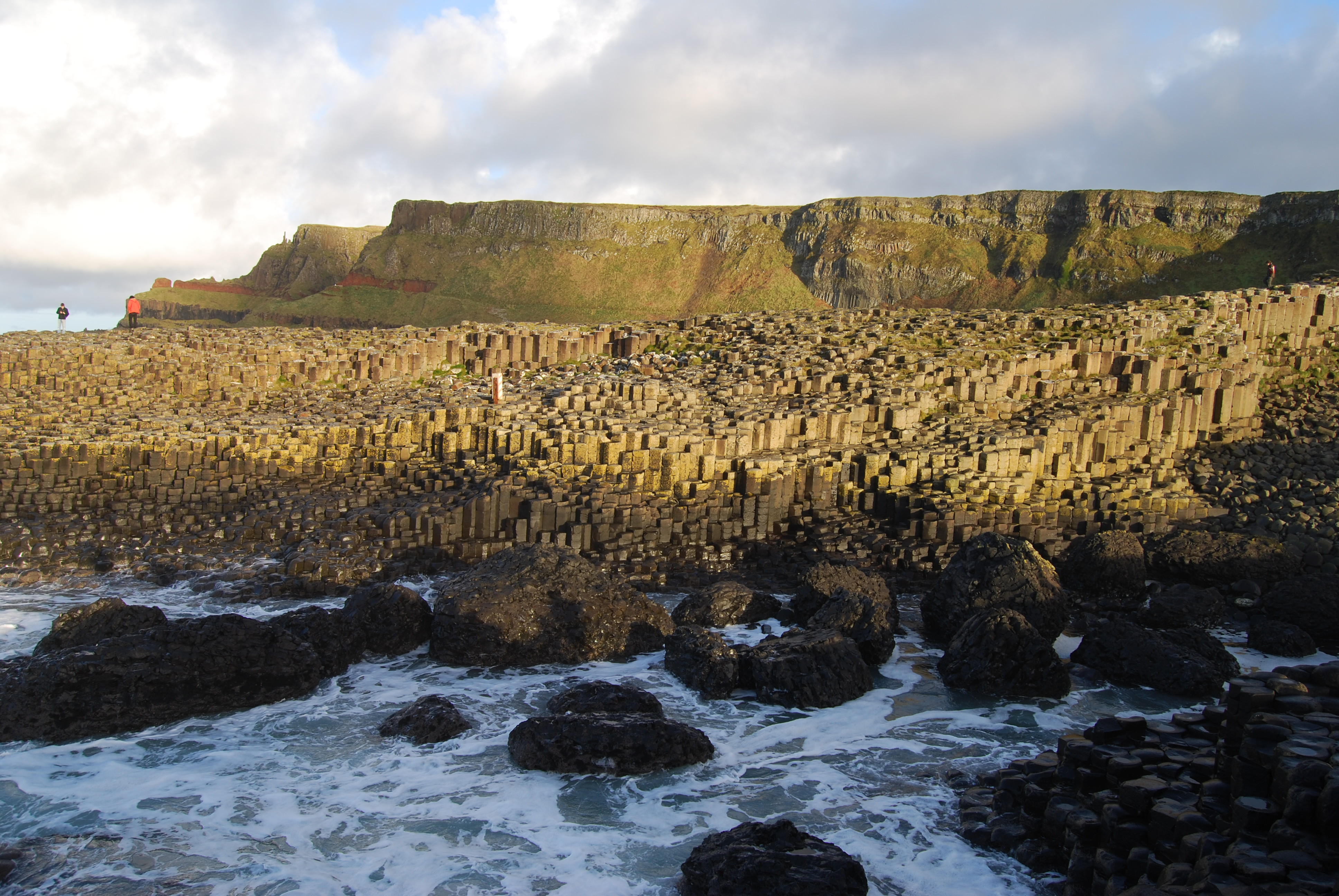 Giant's Causeway, Northern Ireland. Hexagonal basalts.